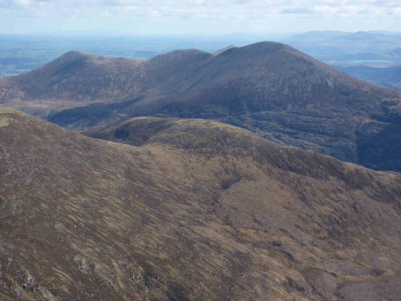 Photograph from The Big Gun of (left to right), Tomies Mountain, Purple Mountain NE Top, and Purple Mountain (rightmost). Shehy Mountain peak is just visible between Purple Mountain and Purple Mountain NE Top.